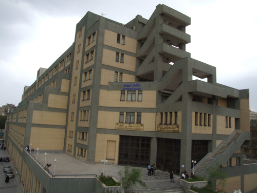 Mechanical Engineering Depatement of AUT